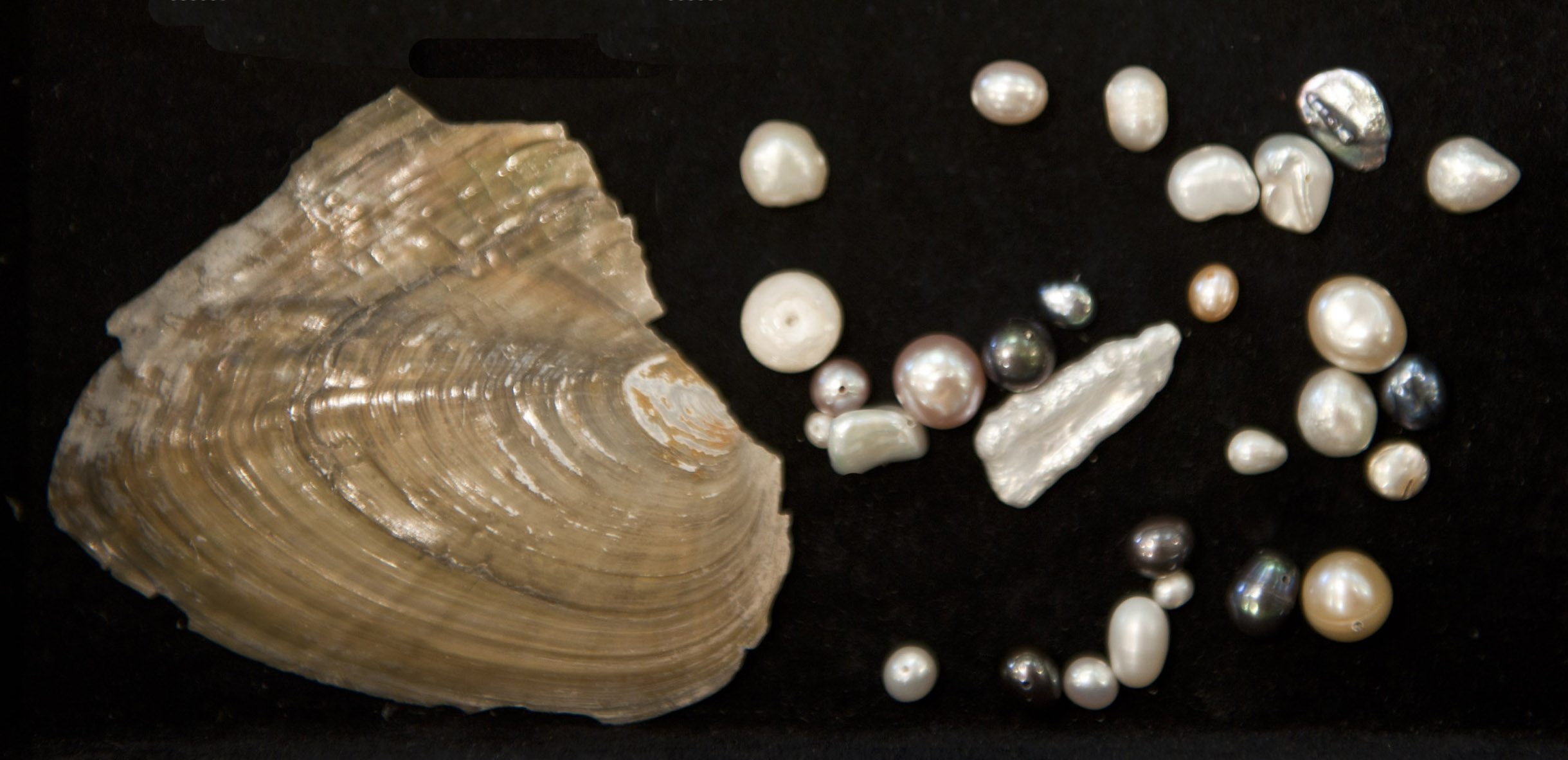 Freshwater clam with cultivated pearls